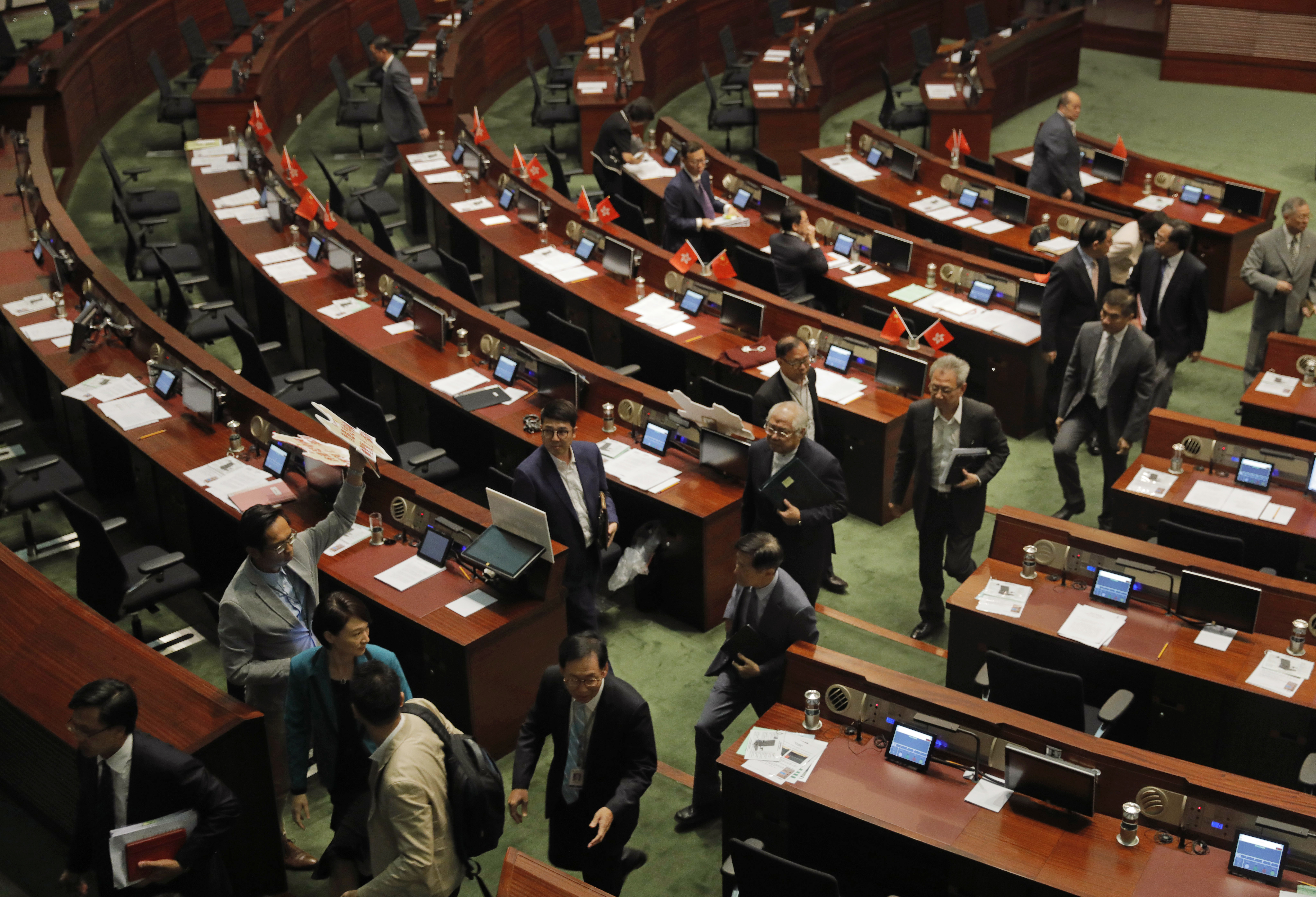 Hong Kong pro-China establishment lawmakers leaving the chamber to force adjournment. 中文（香港）: 香港親中建制派議員集體離開立法會，開會法定人數不足之後流會。